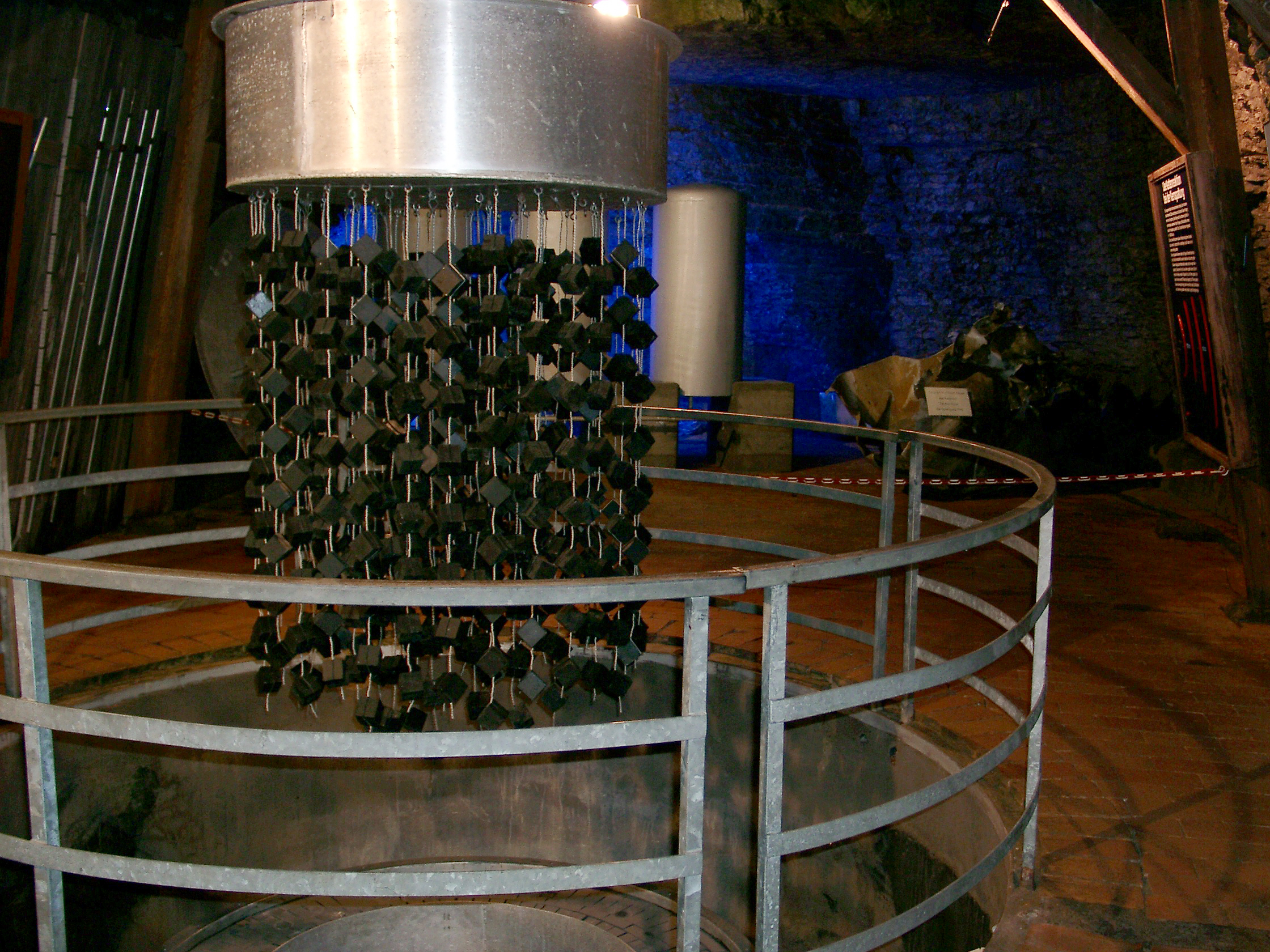 replica of the nuclear reactor at Haigerloch museum